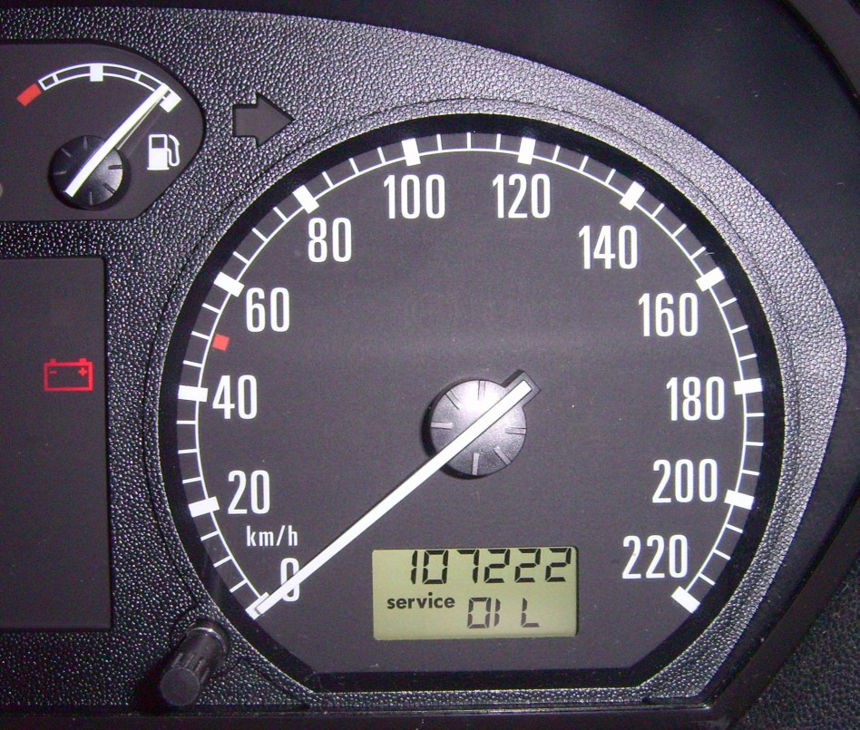 Speedometer with flashing display "service oil". Škoda Fabia.